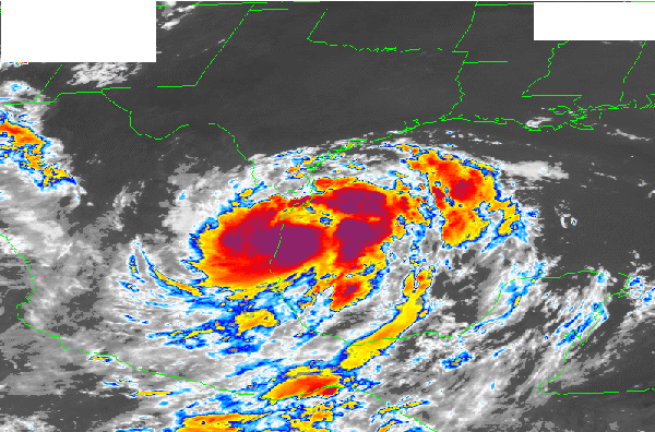 Hurricane Gabrielle at landfall in Texas and Mexico in 1995.